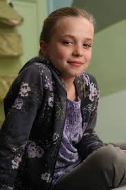 Here she newly had started working in Tracy Beaker Returns and then went on to The DUMPING GROUND. Her current age is 17.